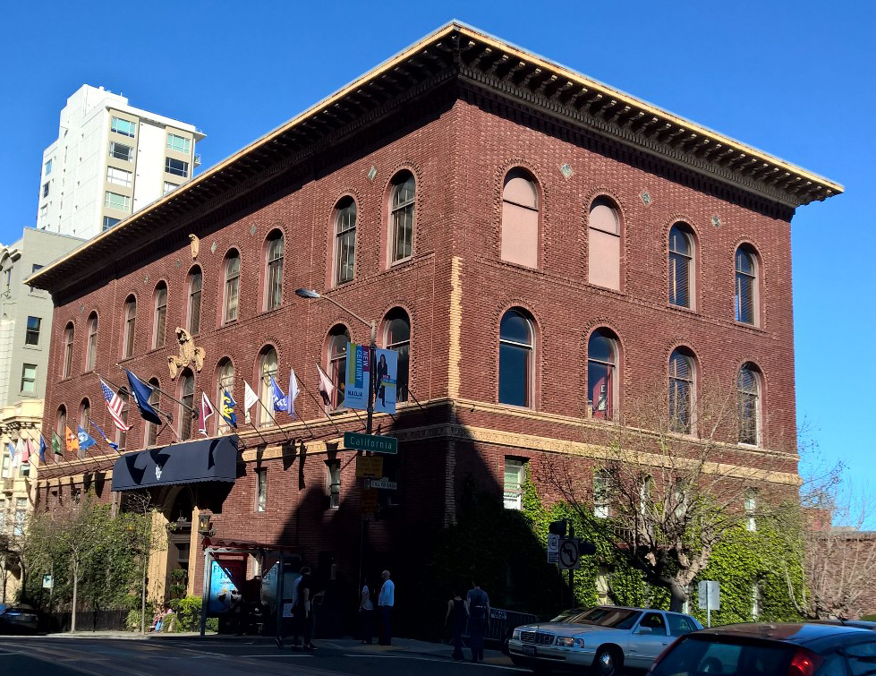 The University Club of San Francisco, viewed from the corner of California Street and Powell Street.